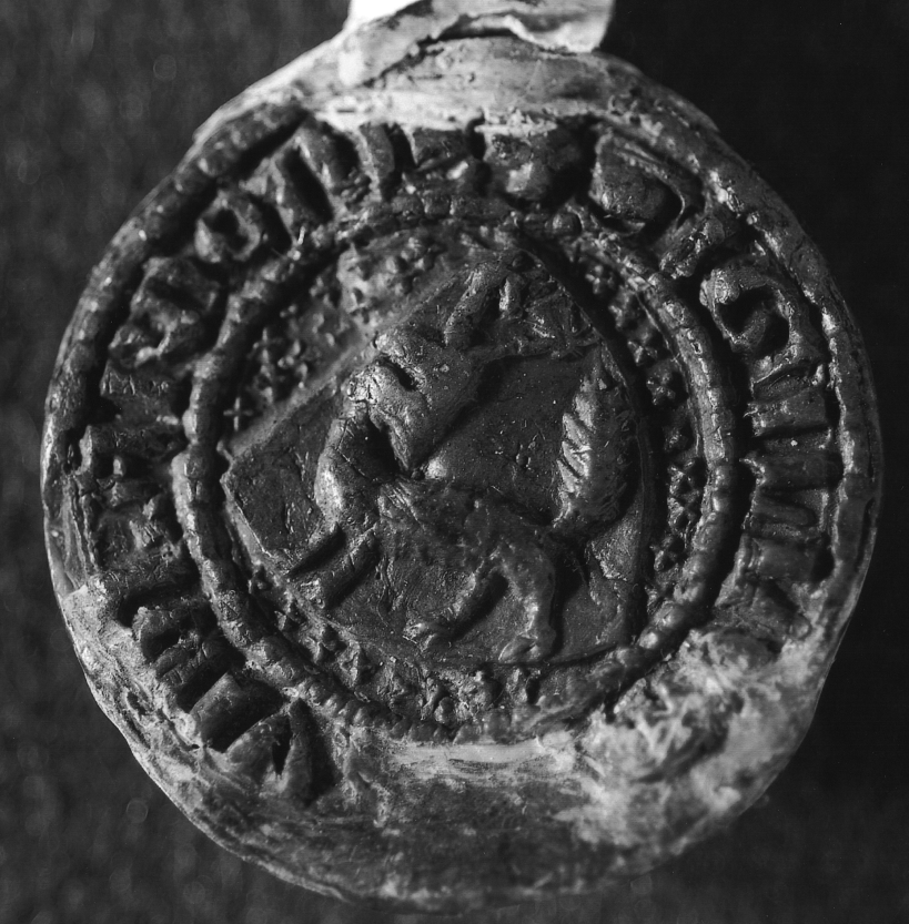 Wax seal showing heraldic shield (coat of arms) of Jorund Arneson of Foss, Norway from 1374. The shield in the centre displays a fox wearing a knight's helmet with two axes. The words around the edge are "SIGILLVM IORNVNDI ARNONIS" - approximately "Seal of Jorund of Arne (Arne's son)".